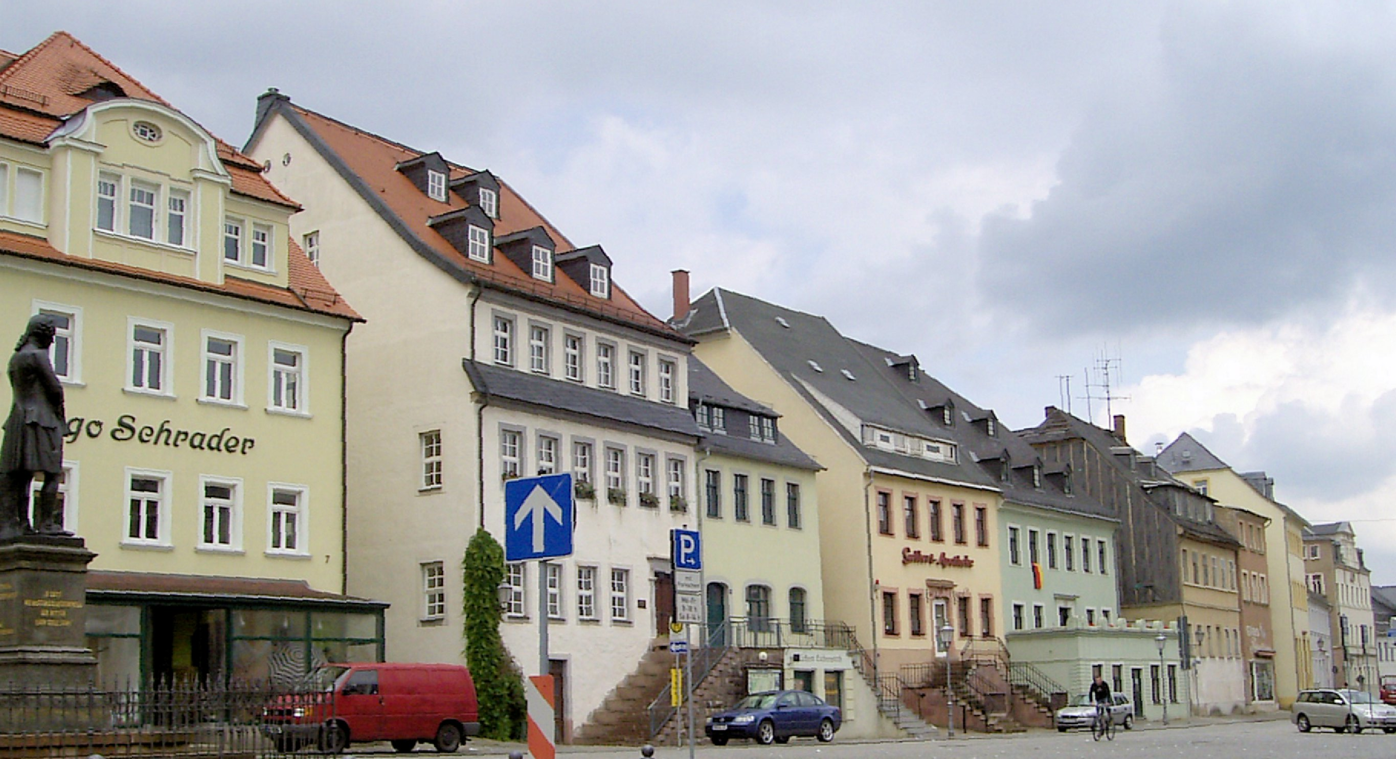 Market Square in Hainichen, Saxony